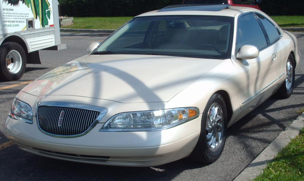 1997-1998 Lincoln Mark VIII photographed in Montreal, Quebec, Canada.